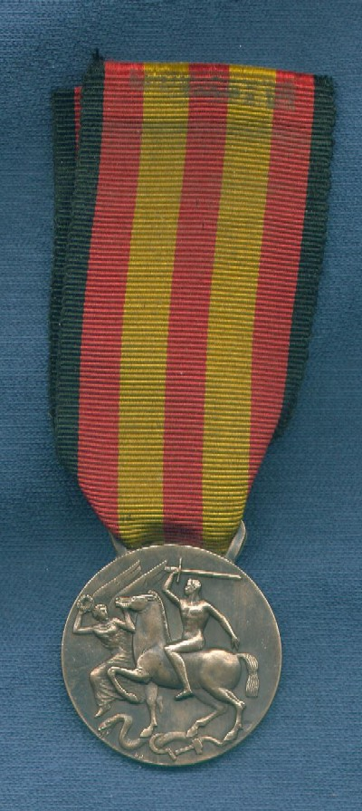 Medal of the Italian Campaign in Spain